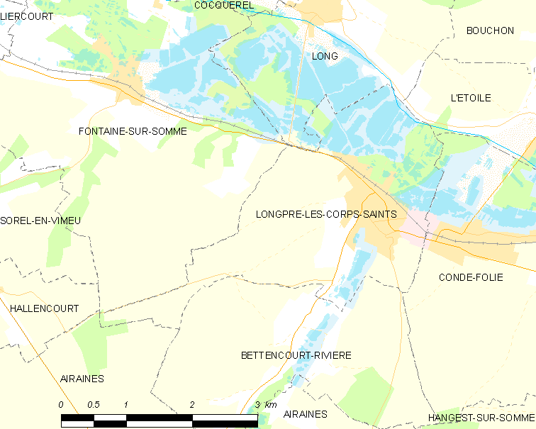 Map of French municipality Longpré-les-Corps-Saints